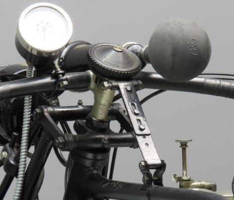 Friction steering damper on a 1925 Norton Model 16H motorcycle